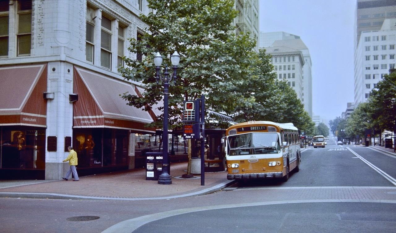 The Portland Mall in 1982, looking south on 6th Avenue at Alder Street. At left is the flagship store of the Meier & Frank chain, and at the "Red Fish" symbol stop is bus 365 (a 1972 35-foot Flxible "New Look" in TriMet's original paint scheme), on line 1-Greeley.